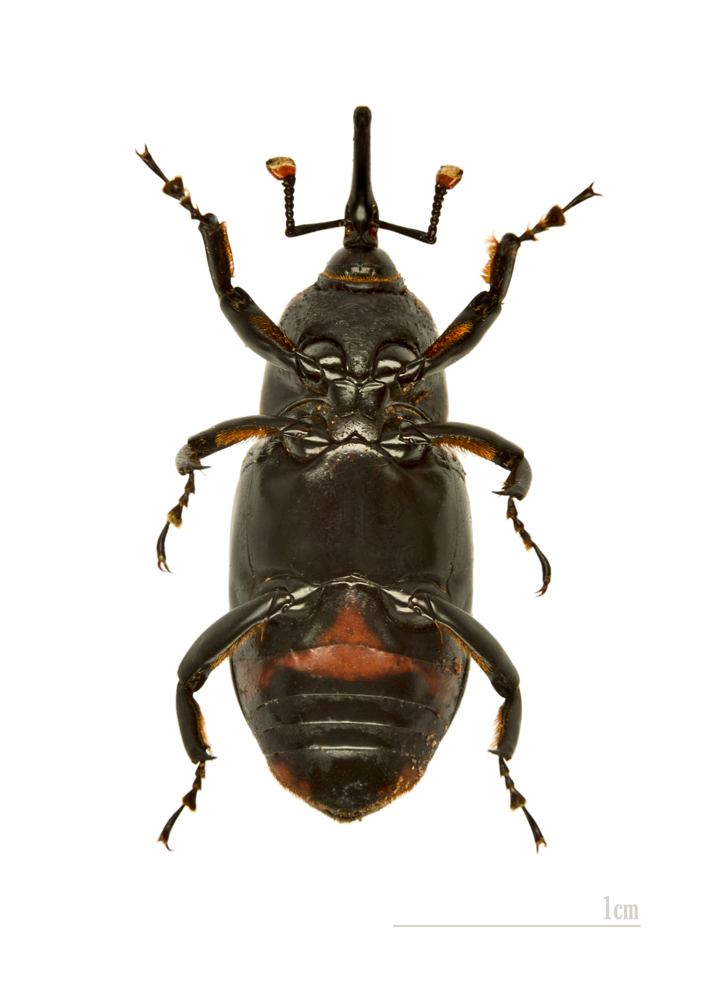 red palm weevil - male - △ Ventral side Locality: La Croix-Valmer, Var, Provence-Alpes-Côte d'Azur, France